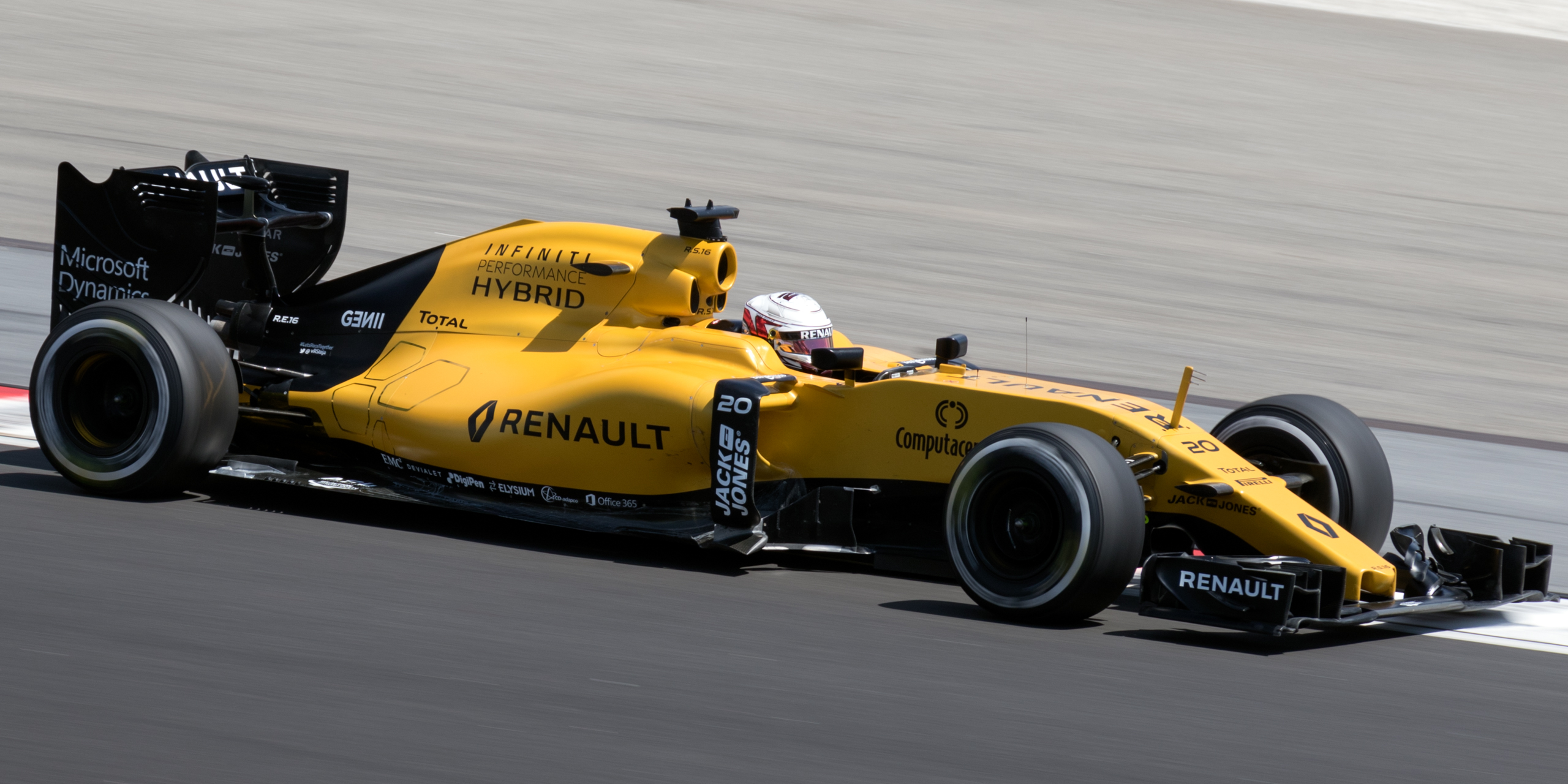 Formula One 2016 Rd.16 Malaysian GP: Kevin Magnussen (Renault)